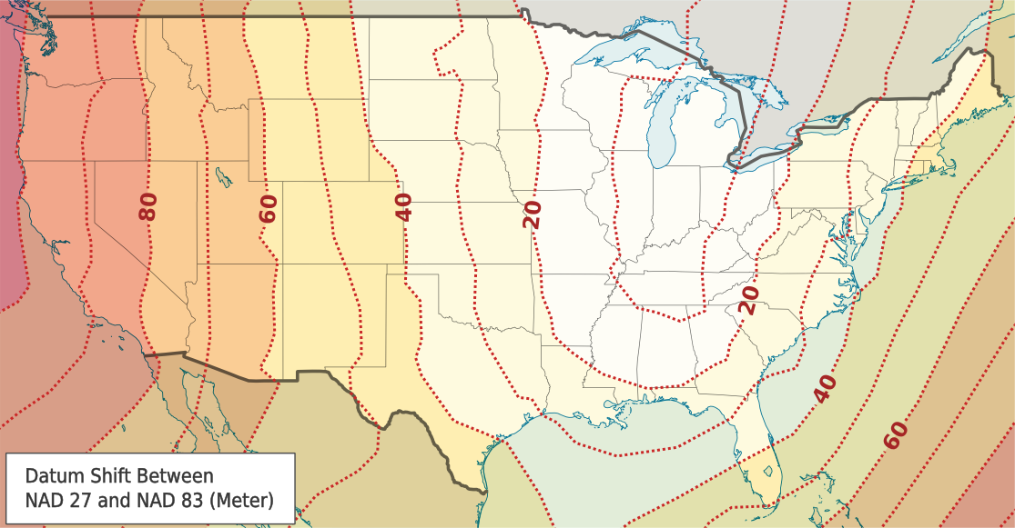 Datum Shift Between NAD27 and NAD83 – The map shows the approximate magnitude (meters) of the total shift between the same set of northing and easting coordinate values in NAD27 and NAD83